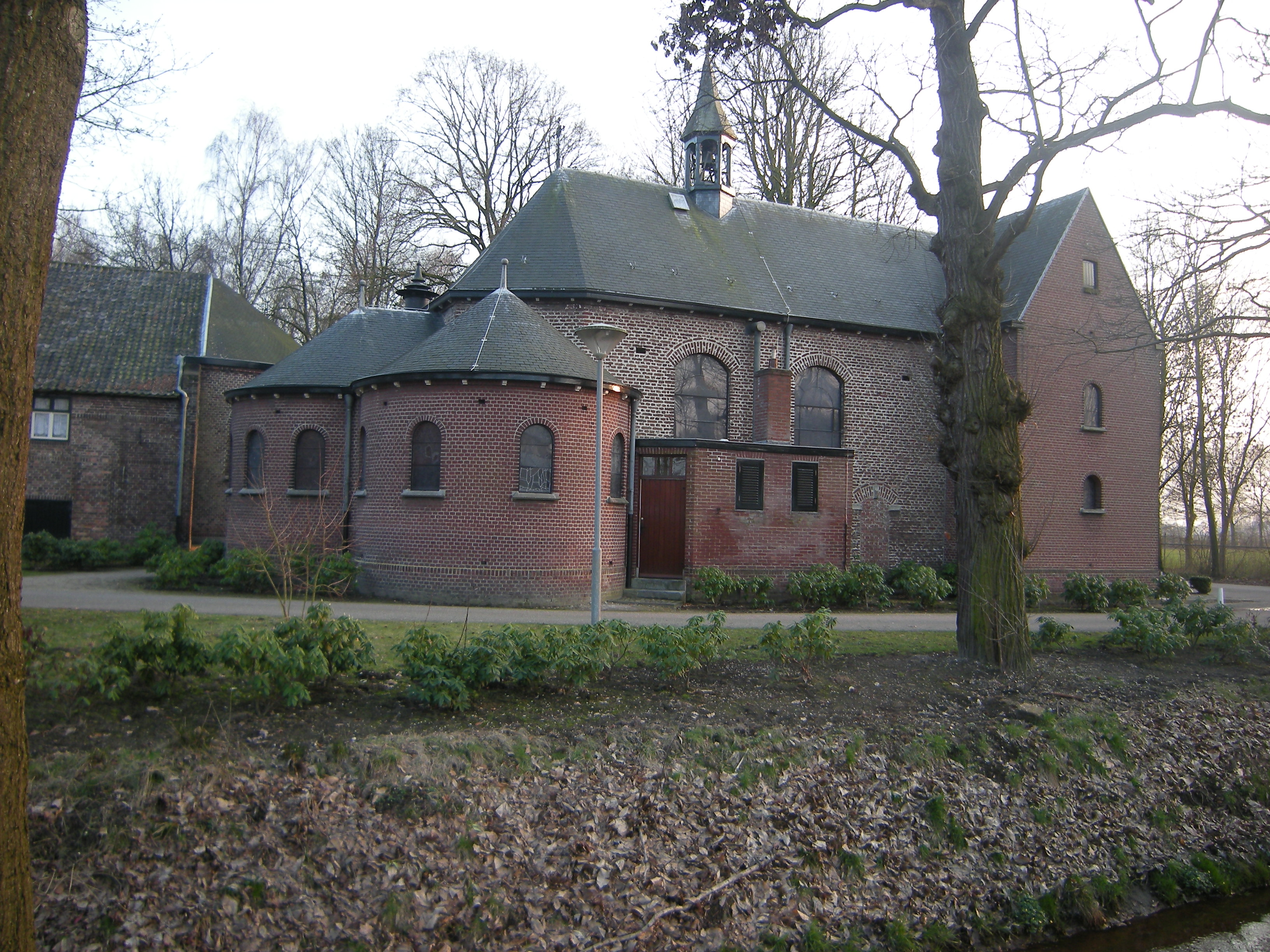 Genooi chappel Venlo side